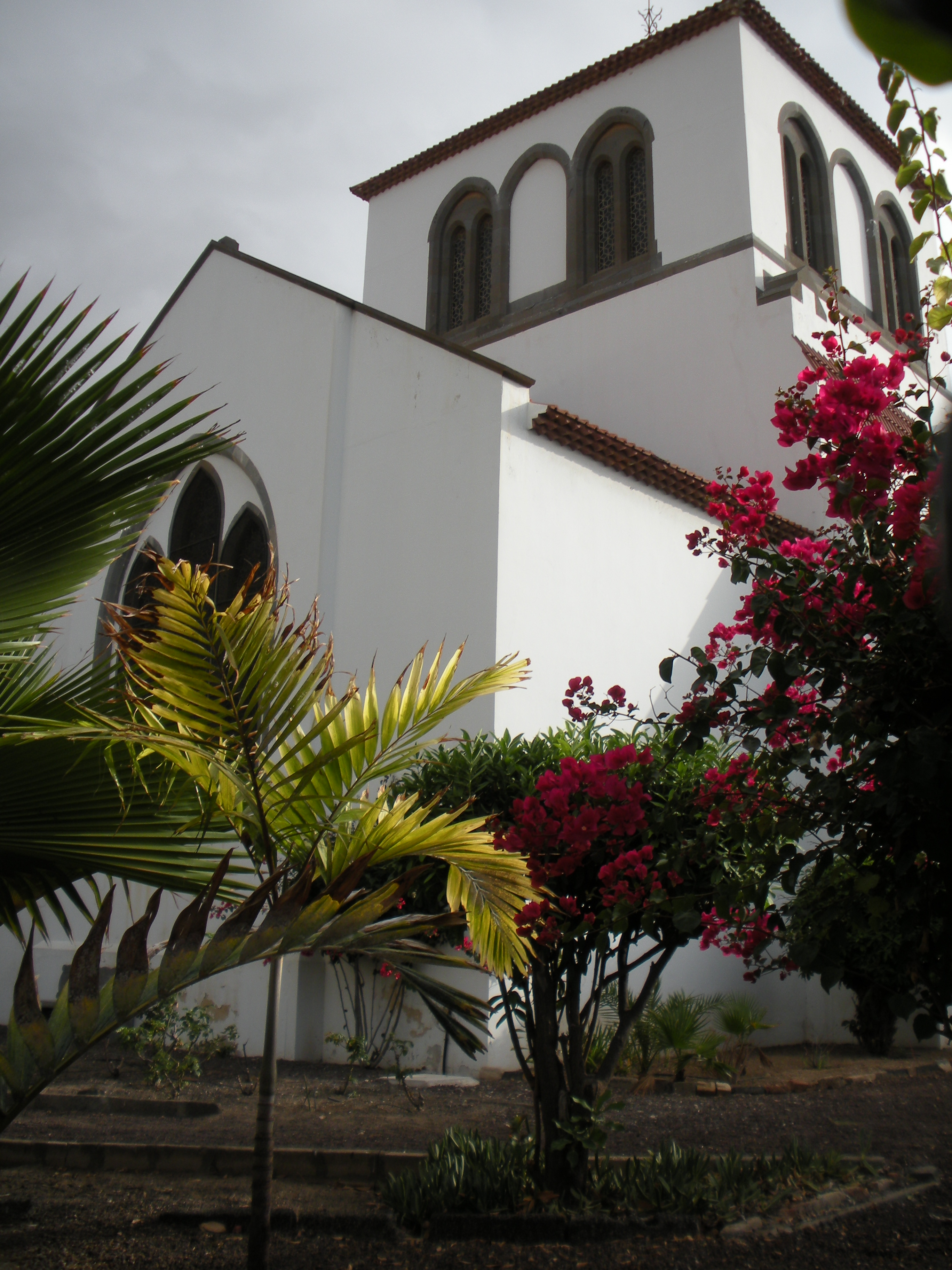 The Anglican Chapel, located in the Ciudad Jardín neighbourhood, was declared Bien de Interés Cultural (BIC, a category of the Spanish heritage register) as a "Monumento" (another sub-category) on 8 March, 2005.